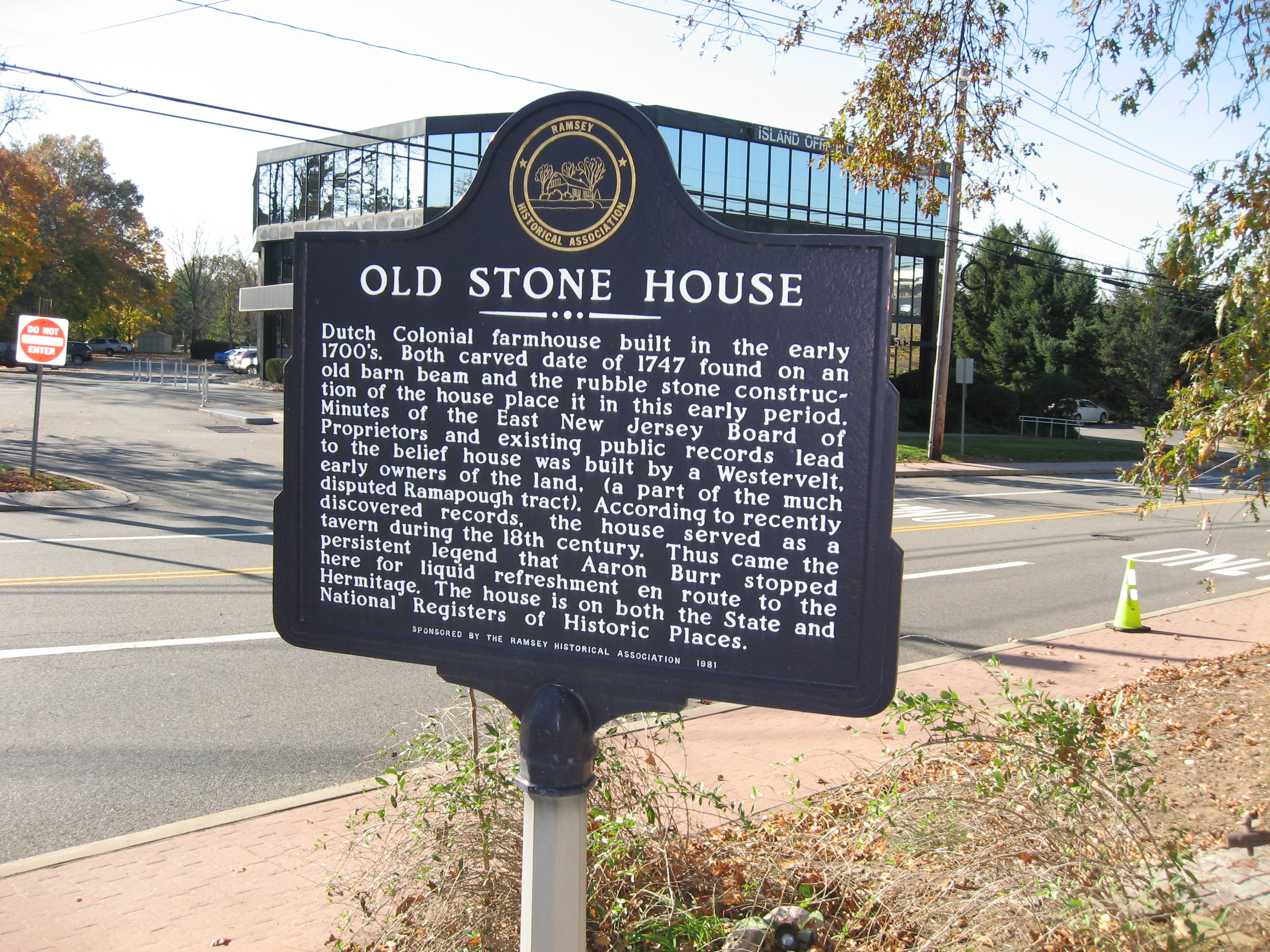 Picture of The Old Stone House Plaque